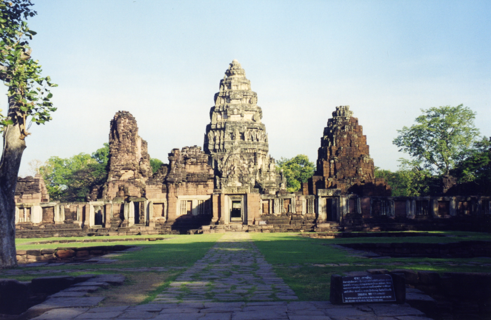 The Phimai historical park protects one of the most important Khmer temples of Thailand. It is located in the town of Phimai, Nakhon Ratchasima province. The temple marks one end of the Ancient Khmer Highway from Angkor. As the enclosed area of 1020x580m is comparable with that of Angkor Wat, Phimai must have been an important city in the Khmer empire. Most buildings are from the late 11th to the late 12th century, built in the Baphuon, Bayon and Angkor Wat style. However, even though the Khmer at that time were Hindu, the temple was built as a Buddhist temple, as Buddhism in the Khorat area dated back to the 7th century. (From Wikipedia